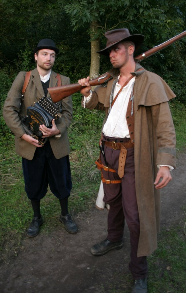 A writer and a huntsman from the Danish LARP "Agerbørn - The Crossroads" (Agerbørn: Korsvejen 17. - 19. augusti 2007, Ryegaard Dyrehave)